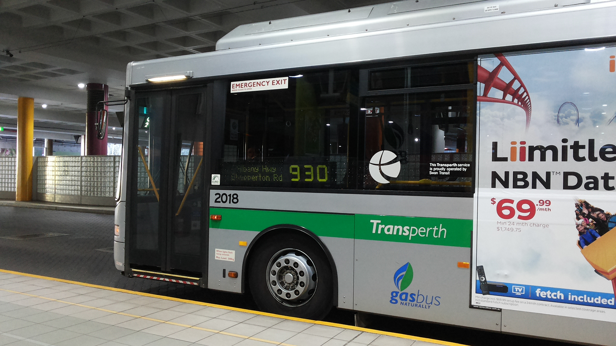 Transperth's Volgren CR228L-bodied Mercedes-Benz OC500LE, numbered #2018 and operated by Swan Transit; seen at Elizabeth Quay Bus Station.